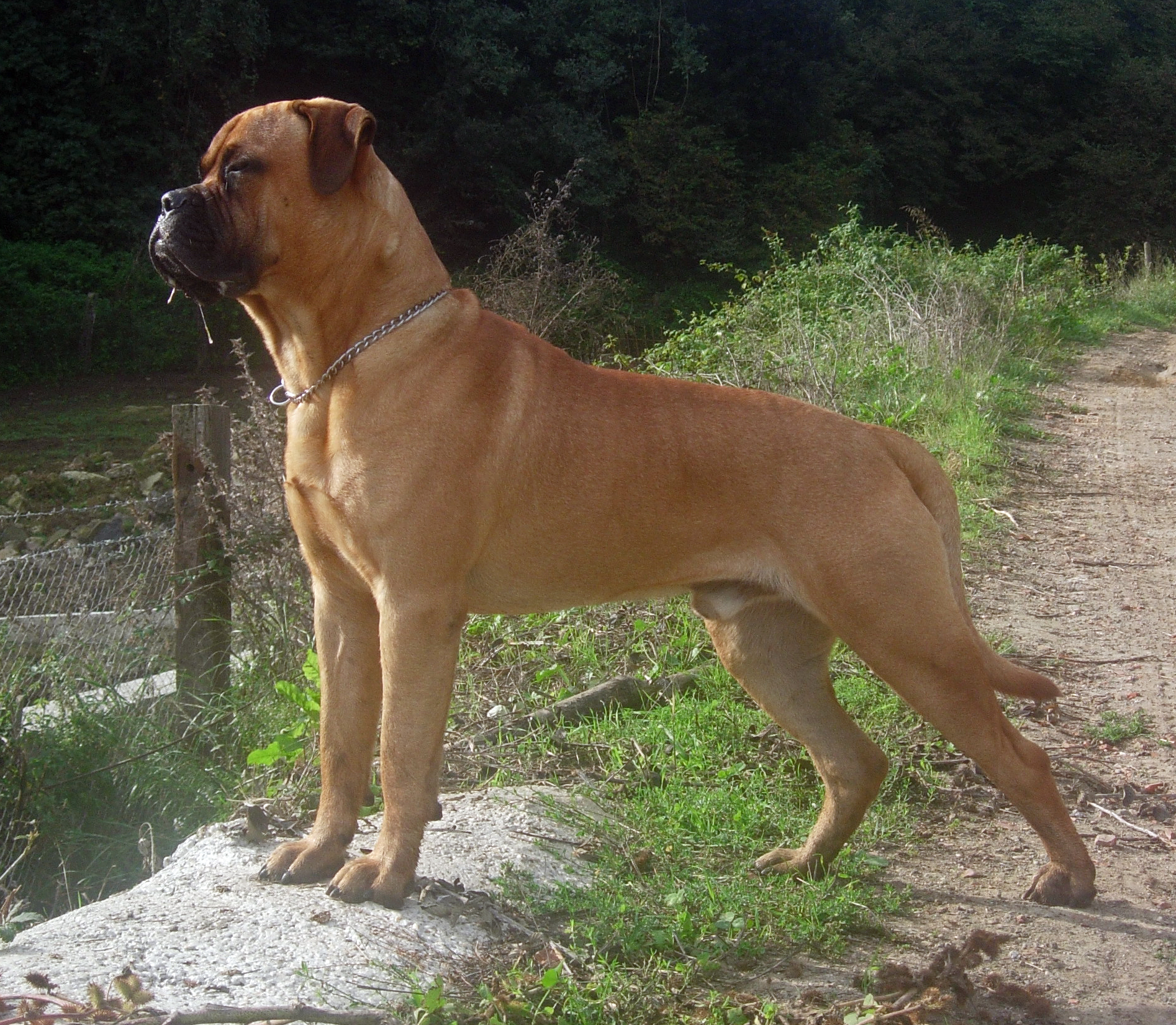 A male Bullmastiff.